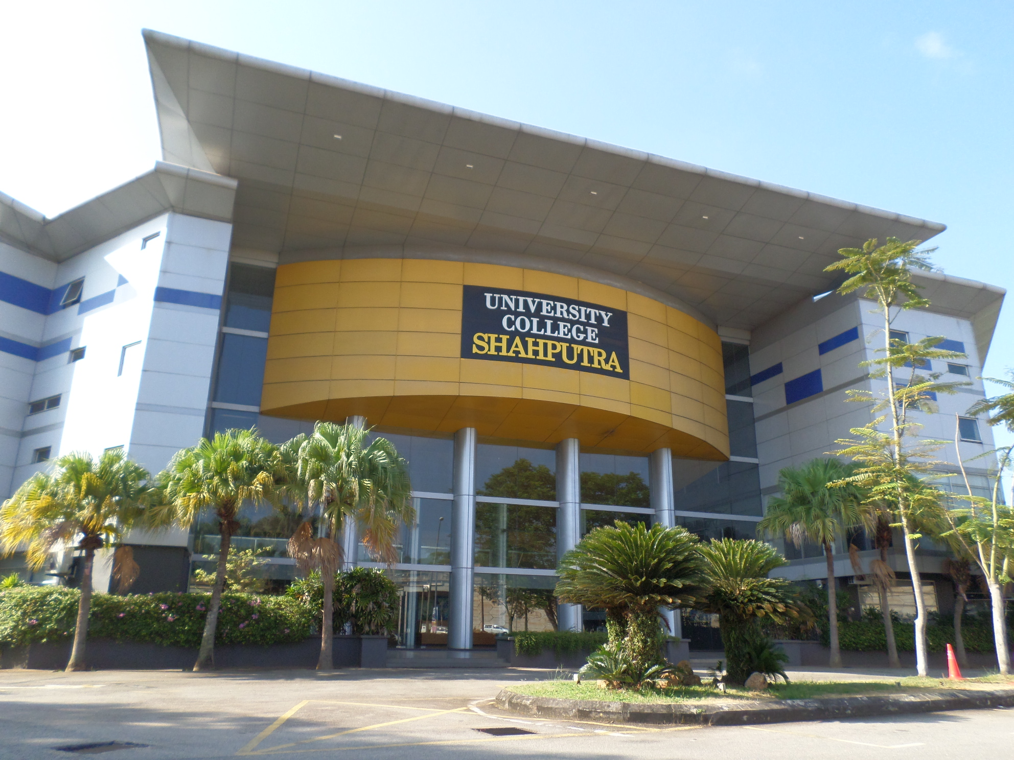 University College Shahputra, Bandar Indera Mahkota, Kuala Kuantan, Kuantan, Pahang, Malaysia